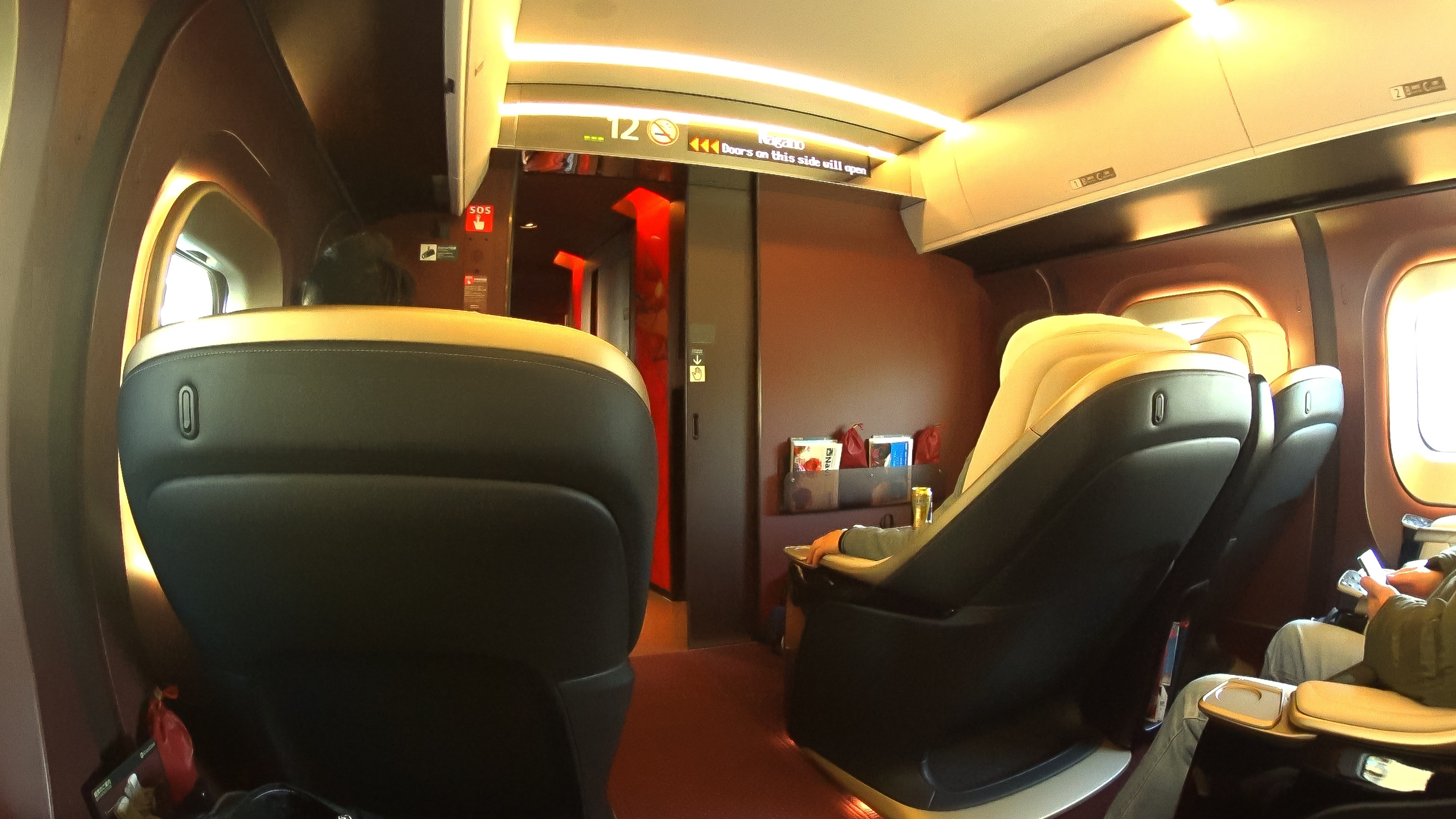 Interior of a JR East E7 series shinkansen Gran Class car (car 12)